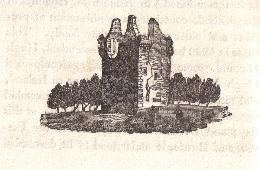 Roughwood Tower in 1823, Beith, North Ayrshire, Scotland